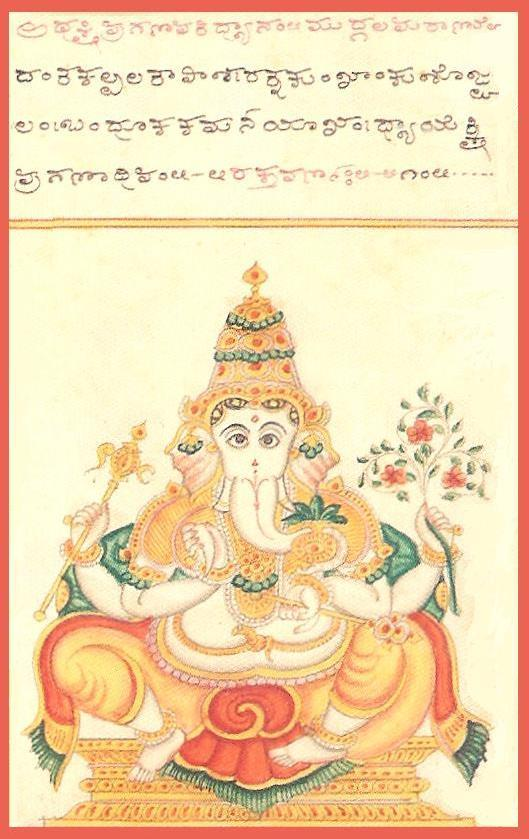 Reproduction from the Śrītattvanidhi ("The Illustrious Treasure of Realities"), an iconographic treatise compiled in the 19th century in Karnataka, India, by order of the then Maharaja of Mysore, Krishnaraja Wodeyar III (b. 1794 - d. 1868).